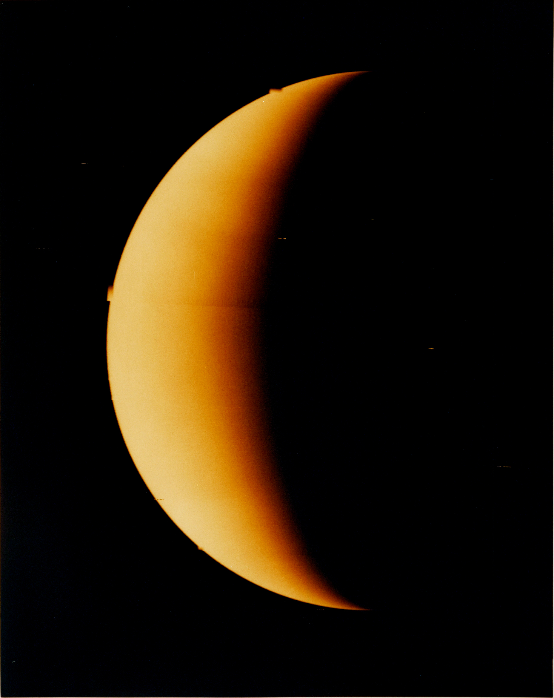 A Quater Venus photograph by Pioneer Venus Orbiter. (Most likely a True Colour picture)